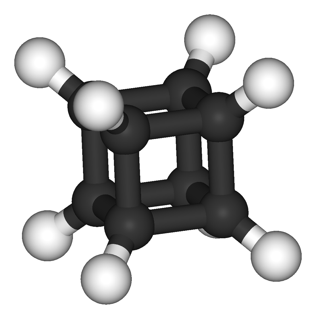 Ball-and-stick model of the cubane molecule. Image generated in Accelrys DS Visualizer.